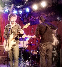 Photo taken by myself. Jape in Roisin Dubh